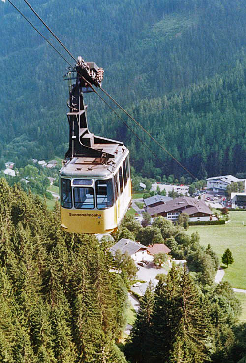 The Sonnenalmbahn cable car at Zell am See in the Austrian Alps. Photographed by Adrian Pingstone in 1998 and released to the public domain.